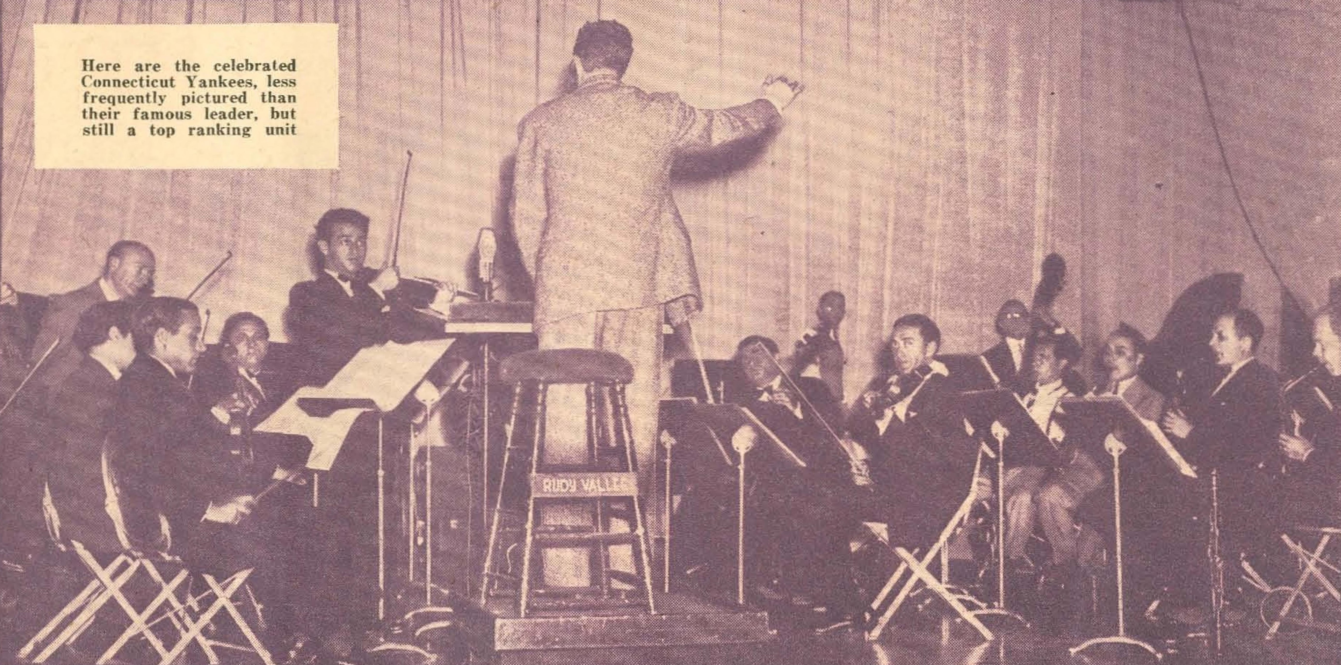 Radio Guide, Week Ending August 17, 1935